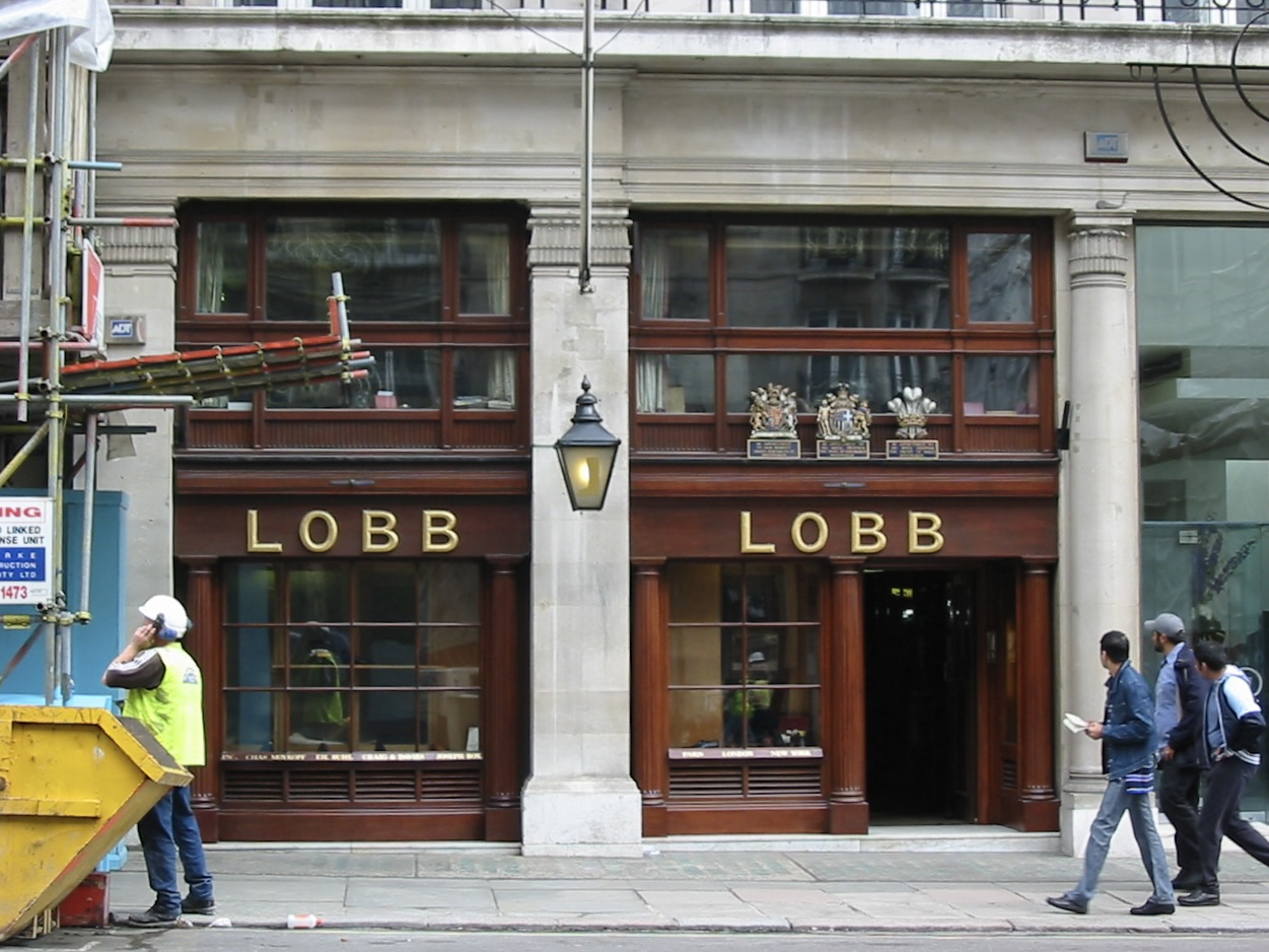 Store front and workplace of John Lobb, bespoke shoe and bootmaker, 88 Jermyn Street, London